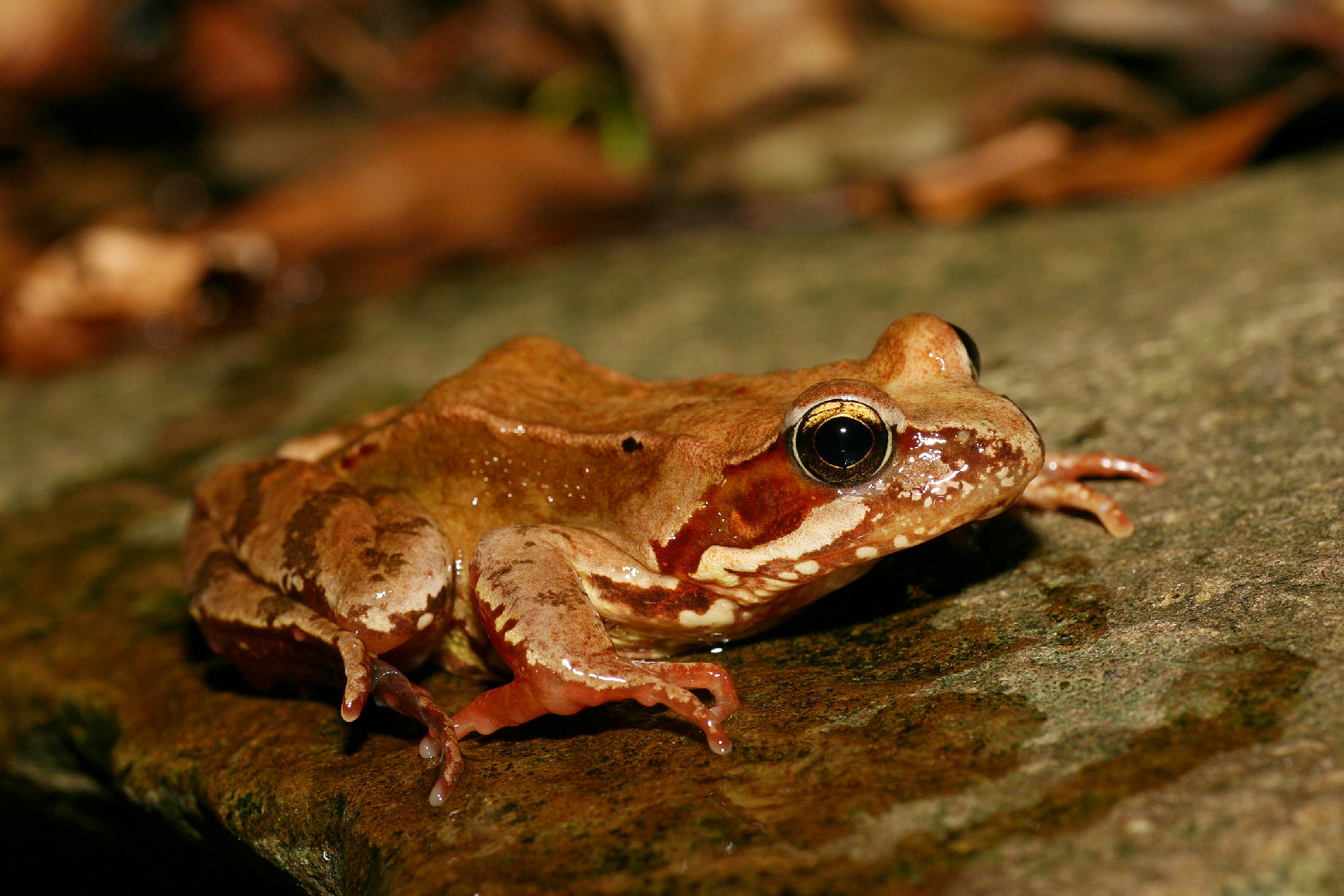 Common Frog (Rana temporaria). Photo taken near Gruberau (Lower Austria). Most likely a lean, young female specimen, no distinctive markings.